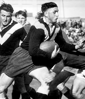 Arthur Clues (1924 – 1998) During his career at Western Suburbs Magpies